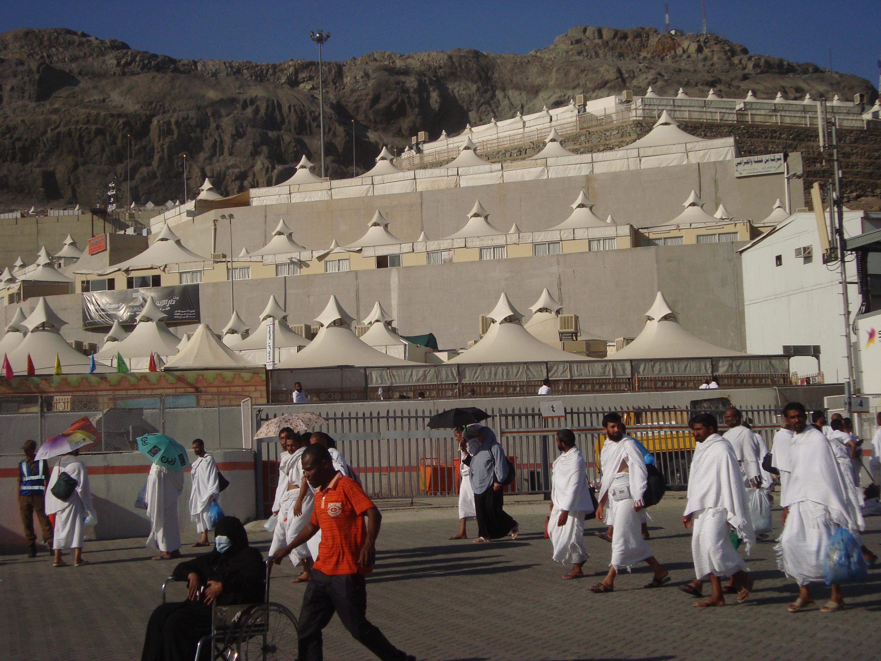 Mina_camps